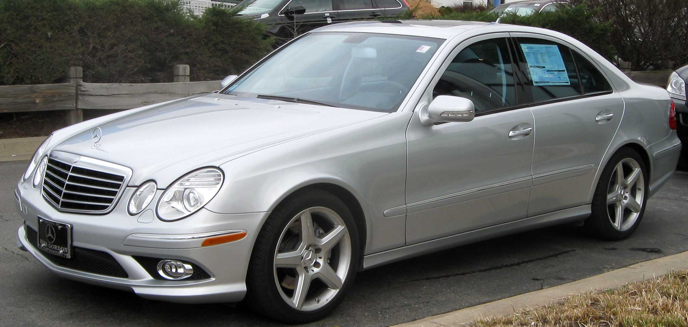 2009 Mercedes-Benz E350 photographed in Silver Spring, Maryland, USA.